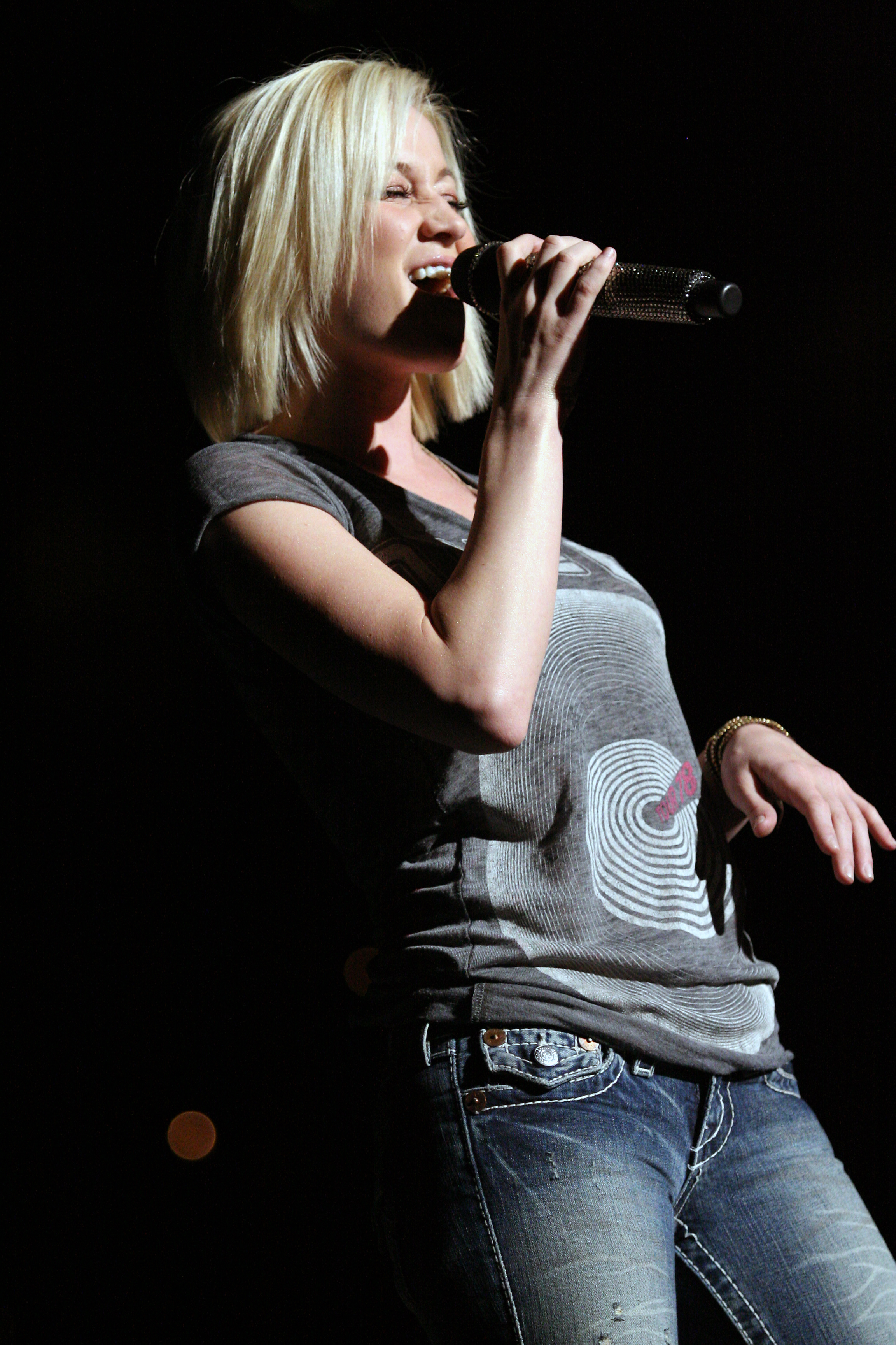 Kellie Pickler, American country singer, in concert, Jacksonville, Florida